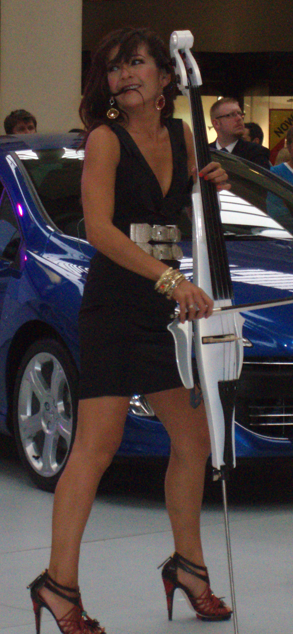 Gay-Yee Westerhoff of Bond performing at the Metrocentre in Gateshead, UK in promotion of Peugeot on 27 June 2009.